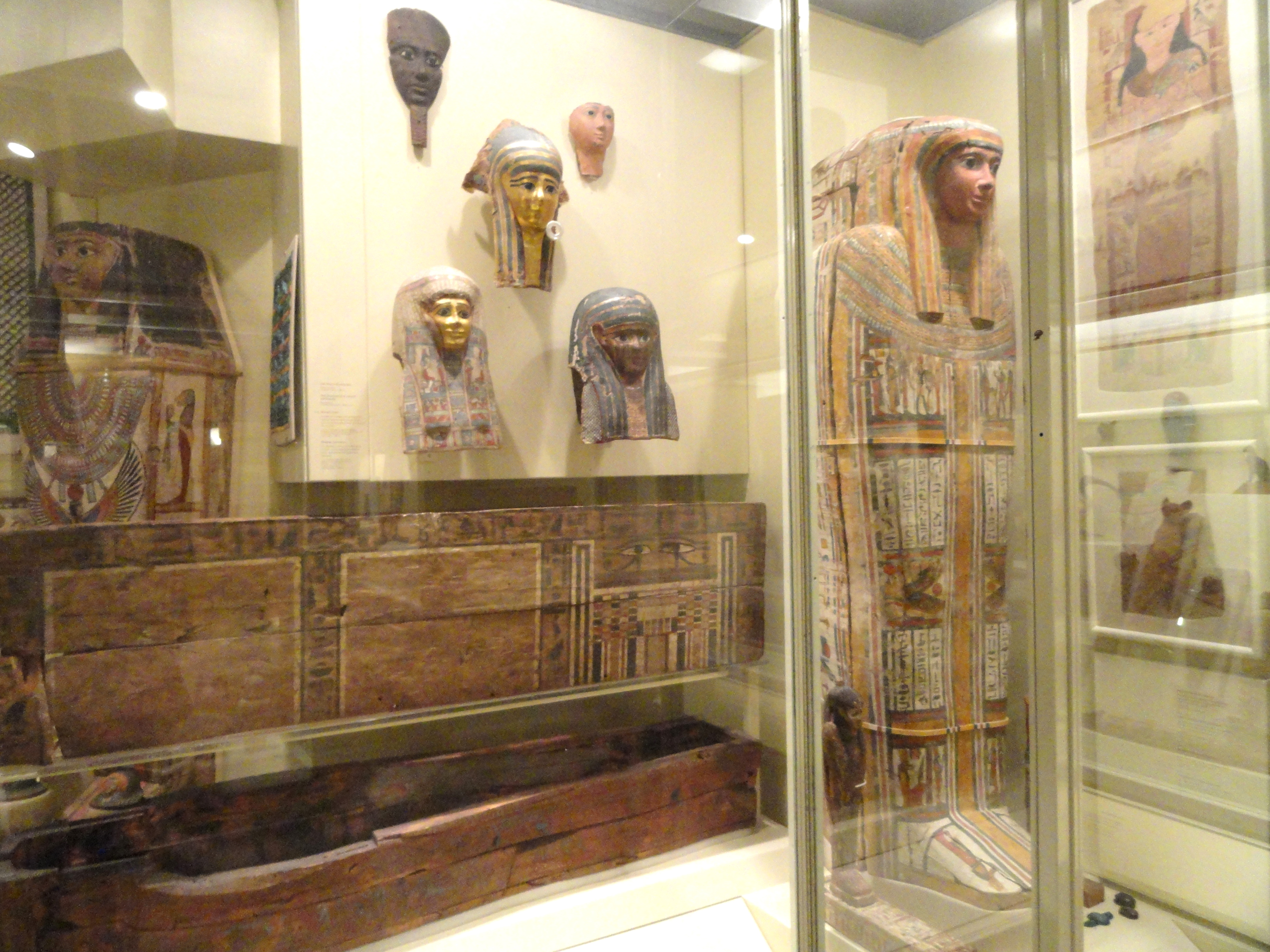 Exhibit in the Royal Ontario Museum, Toronto, Ontario, Canada. This exhibit is old enough so that it is in the public domain, and photography was permitted in the museum. I took this photograph and release it into the public domain.